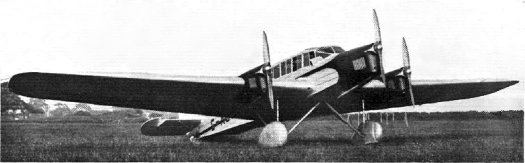 Spartan Cruiser (G-ABTY), 1932